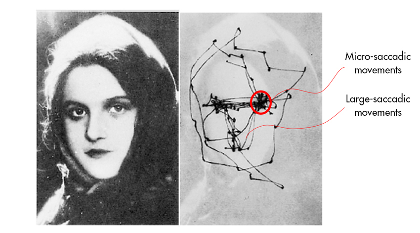 Movement of the eyes during Saccades and Microsaccdes.